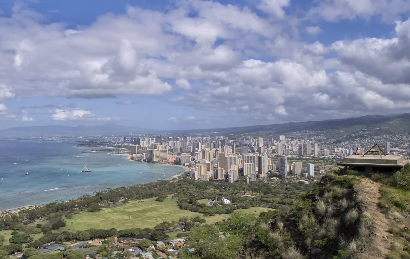 Downtown Honolulu as seen from the top of Diamond Head.